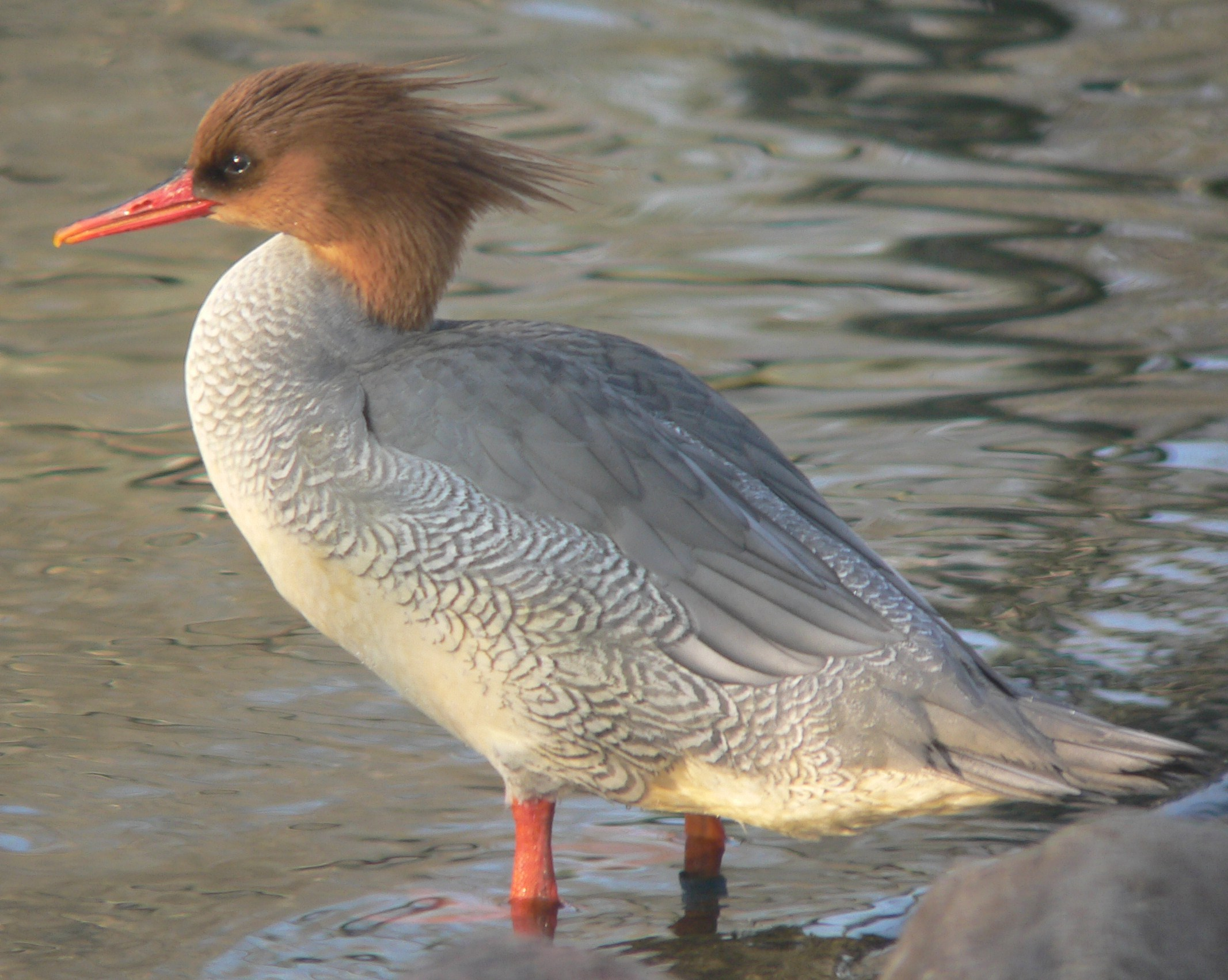 Scaly-sided Merganser, female